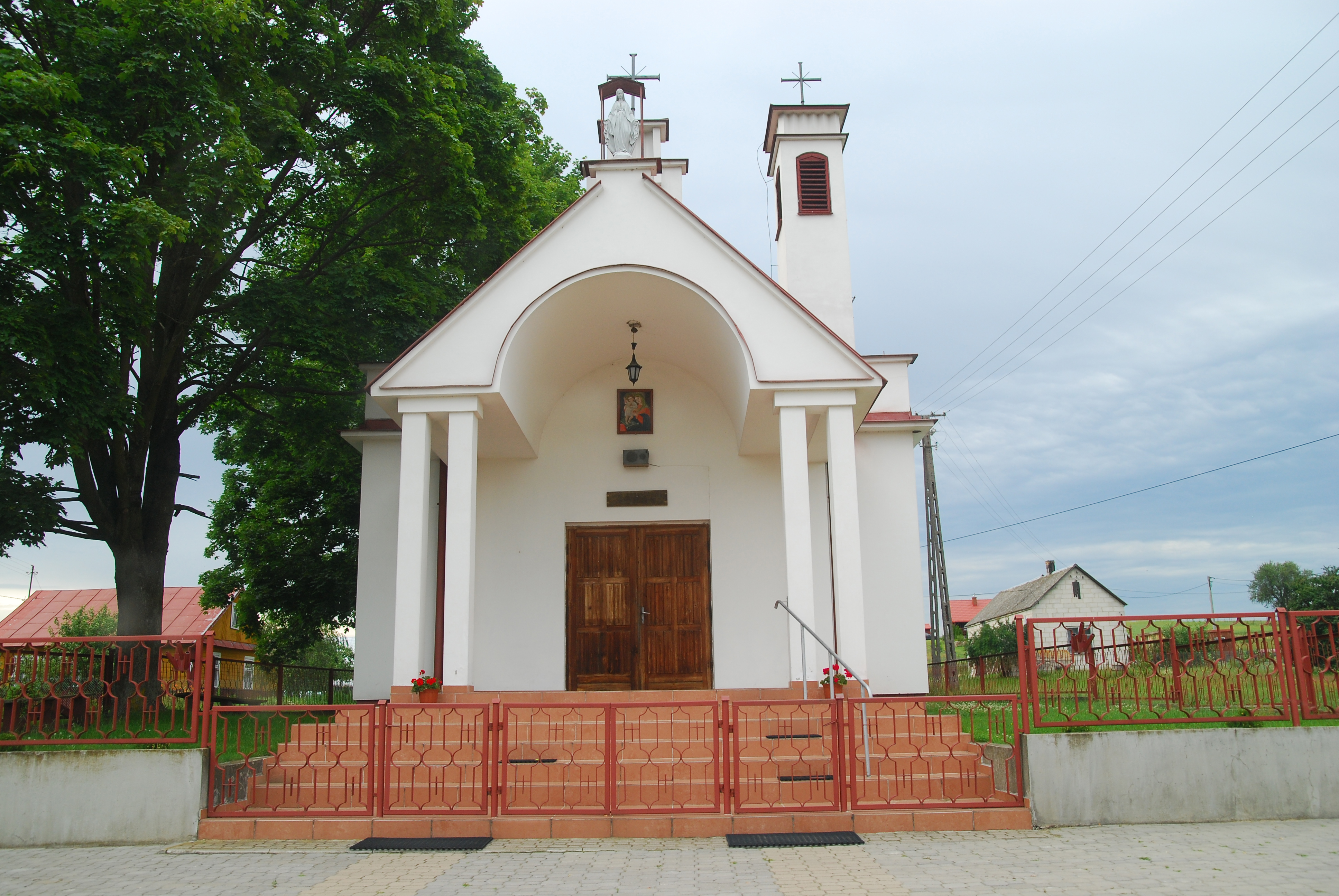 This photo from Podlaskie Voievodeship was taken during Polish Wikiexpedition 2009 set up by Wikimedia Polska Association. The making of this document was supported by Wikimedia Polska. Kapliczka pod wezwaniem Ostrobramskiej Matki Miłosierdzia w Sutnie